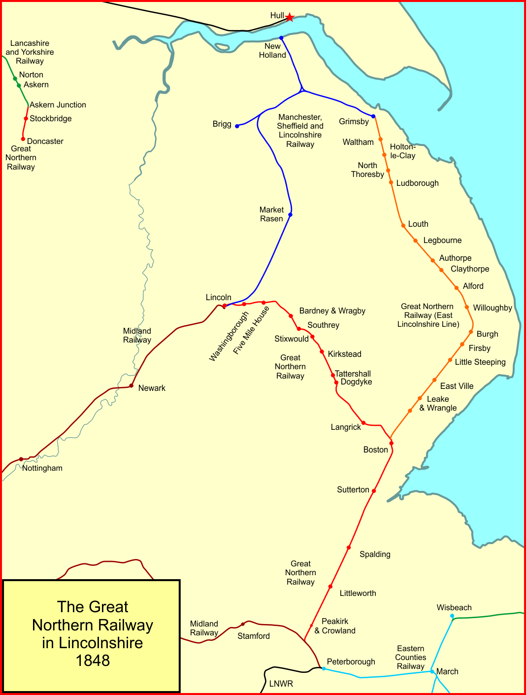 System map of the Great Northern Railway in Lincolnshire, England, in 1848